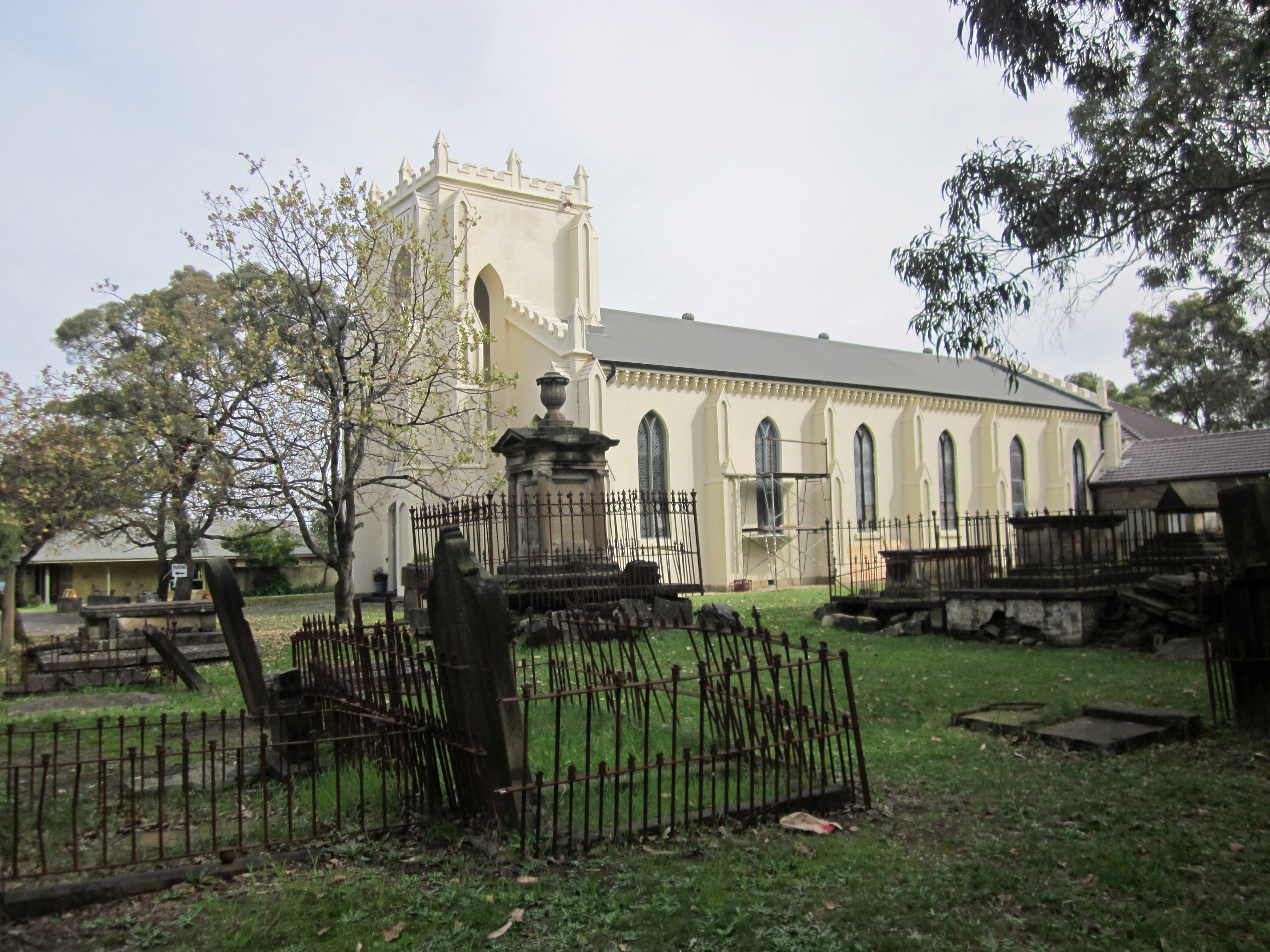 St Peters Church and Cemetery, St Peters, New South Wales on 27 May 2014.